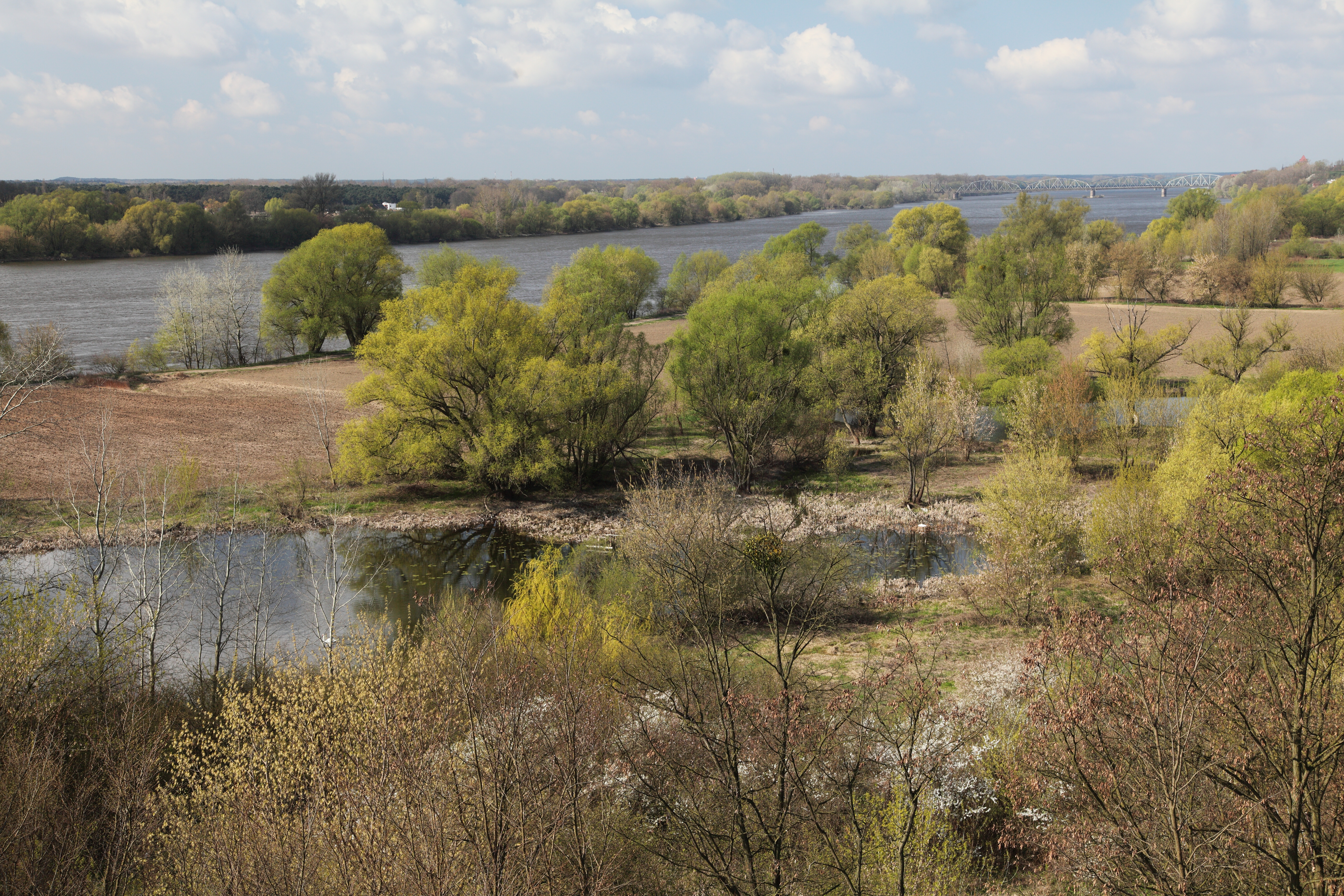 Vistula river valley near Toruń.